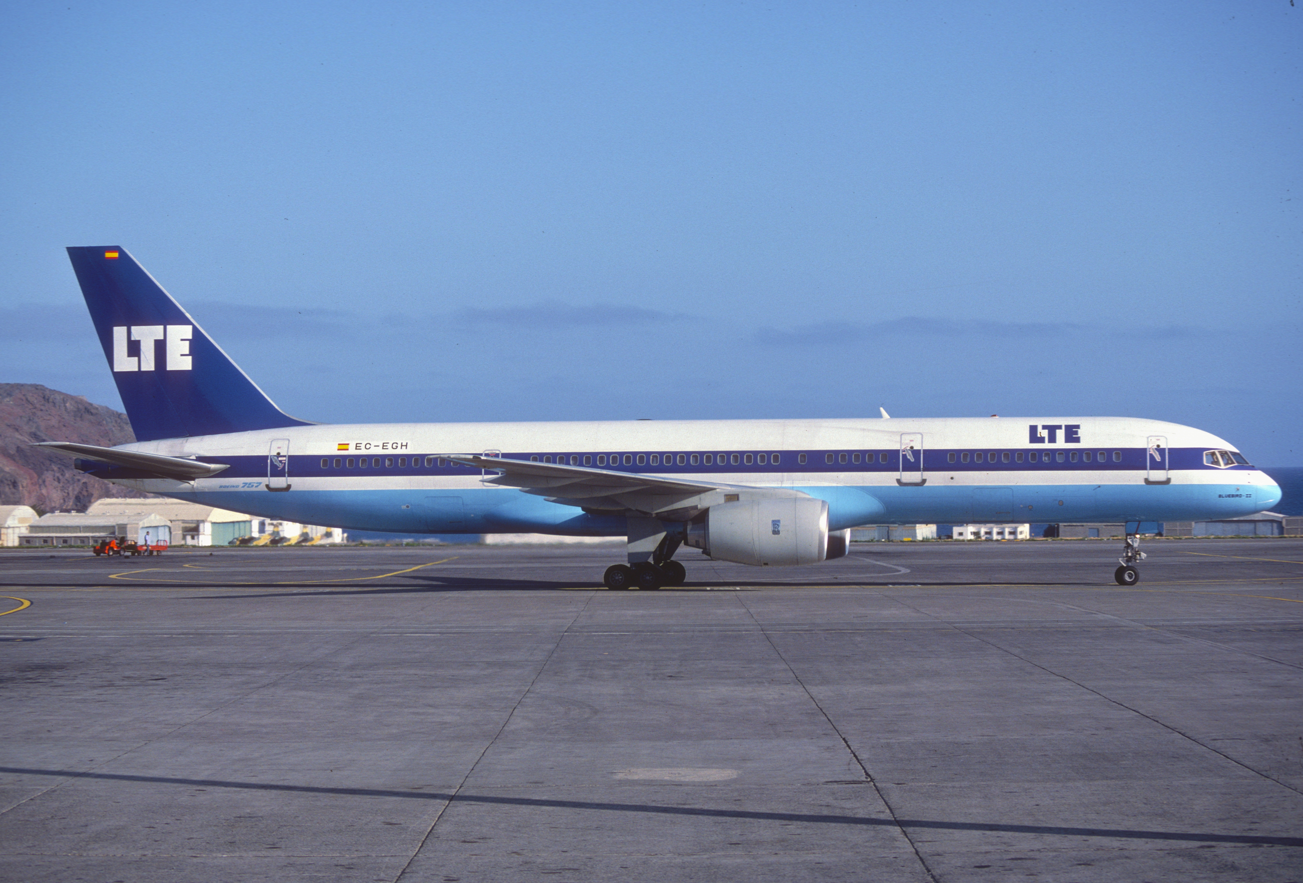 LTE Boeing 757-2G5; EC-EGH, February 1988